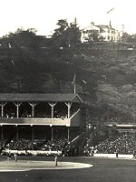 Cropped version of File:Polo grounds panorama.jpg, isolating on the Morris-Jumel Mansion.